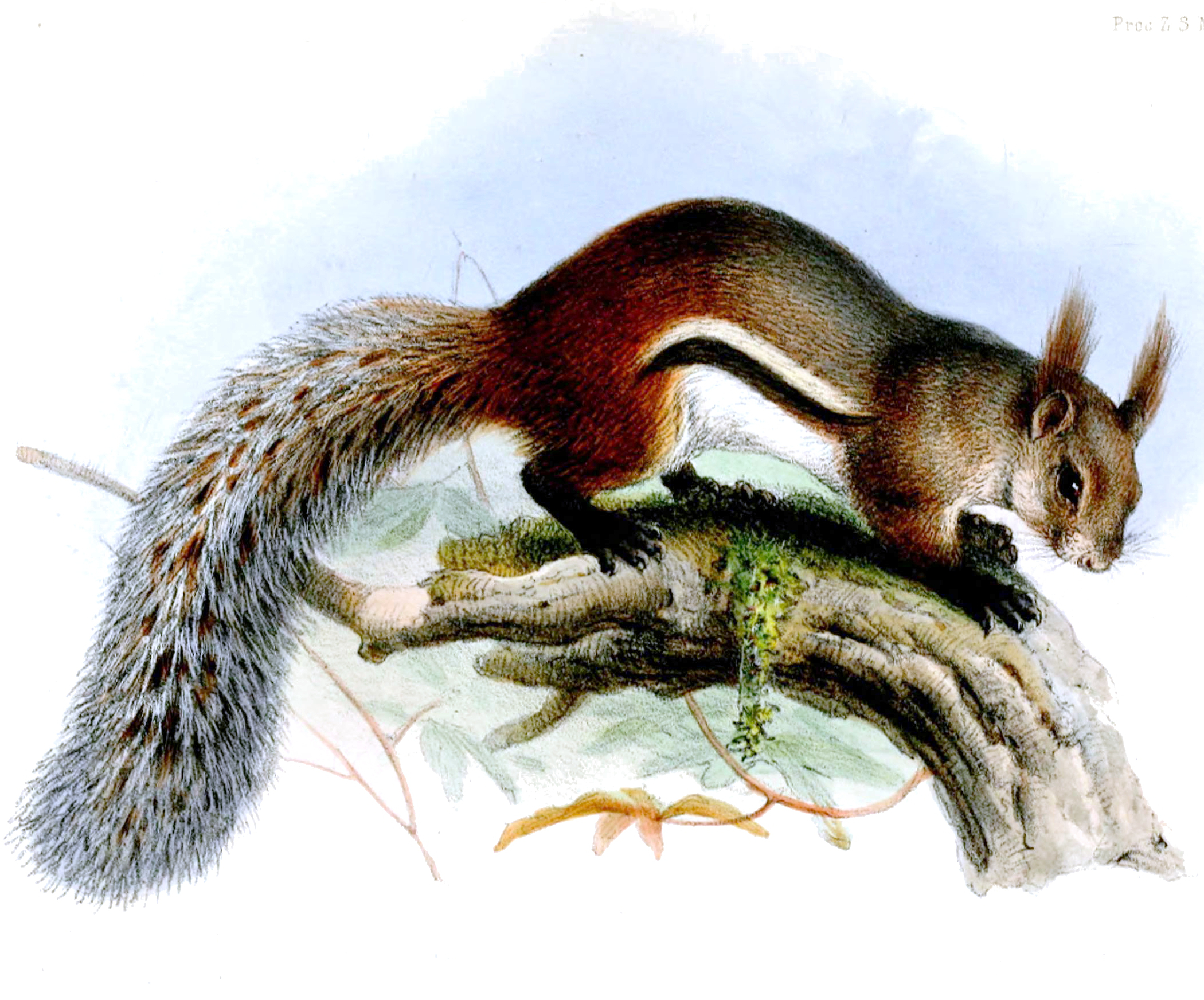 Sciurus macrotis=Rheithrosciurus macrotis